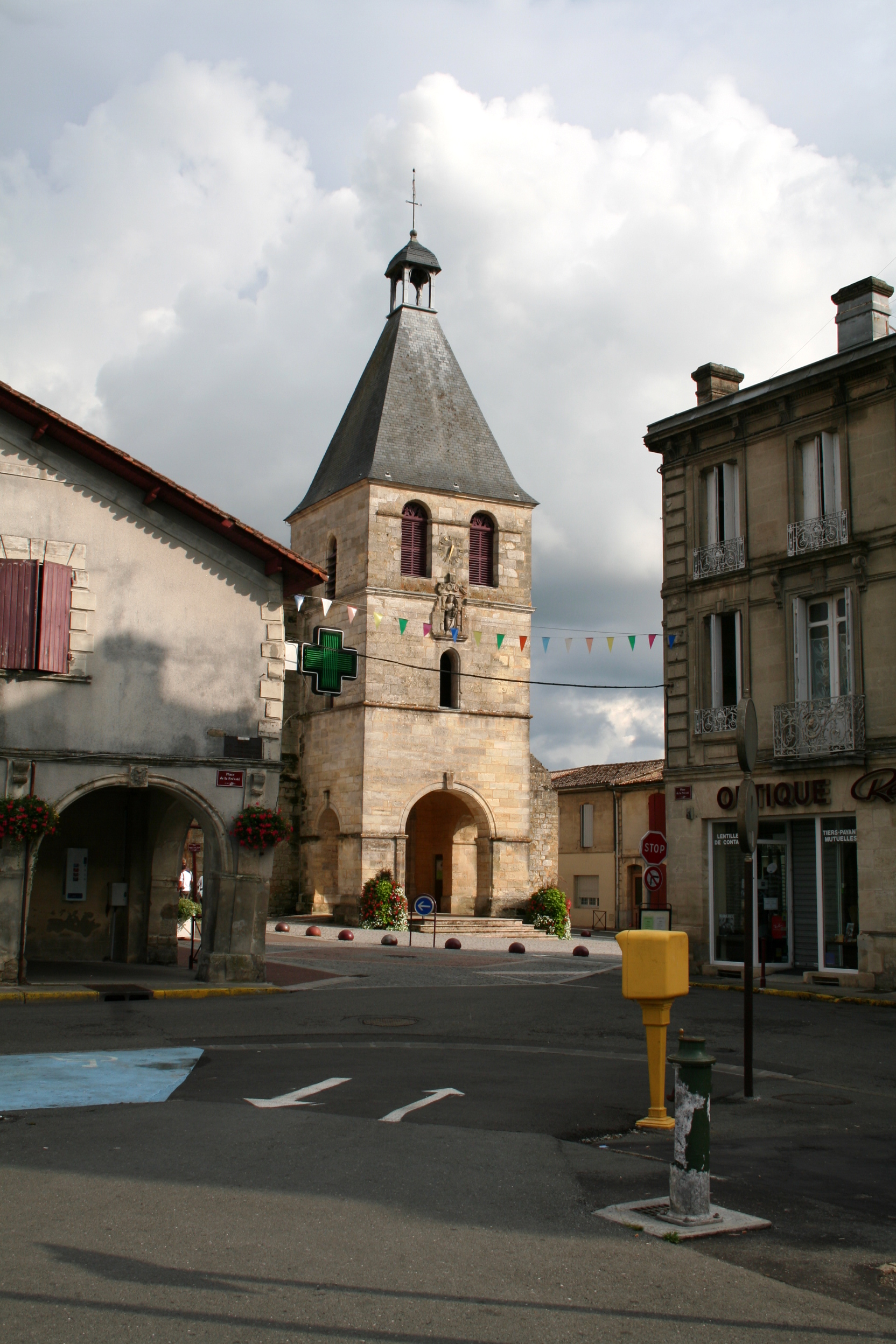 Eglise Notre-Dame de Créon (33) 15th century,16th century